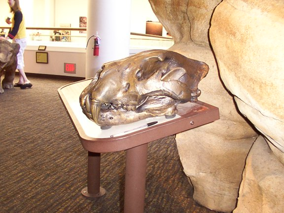 A bronze cast of an American lion skull, on display at the San Diego Natural History Museum. A capped ballpoint pen is in front of it for scale. Taken in July 2007.